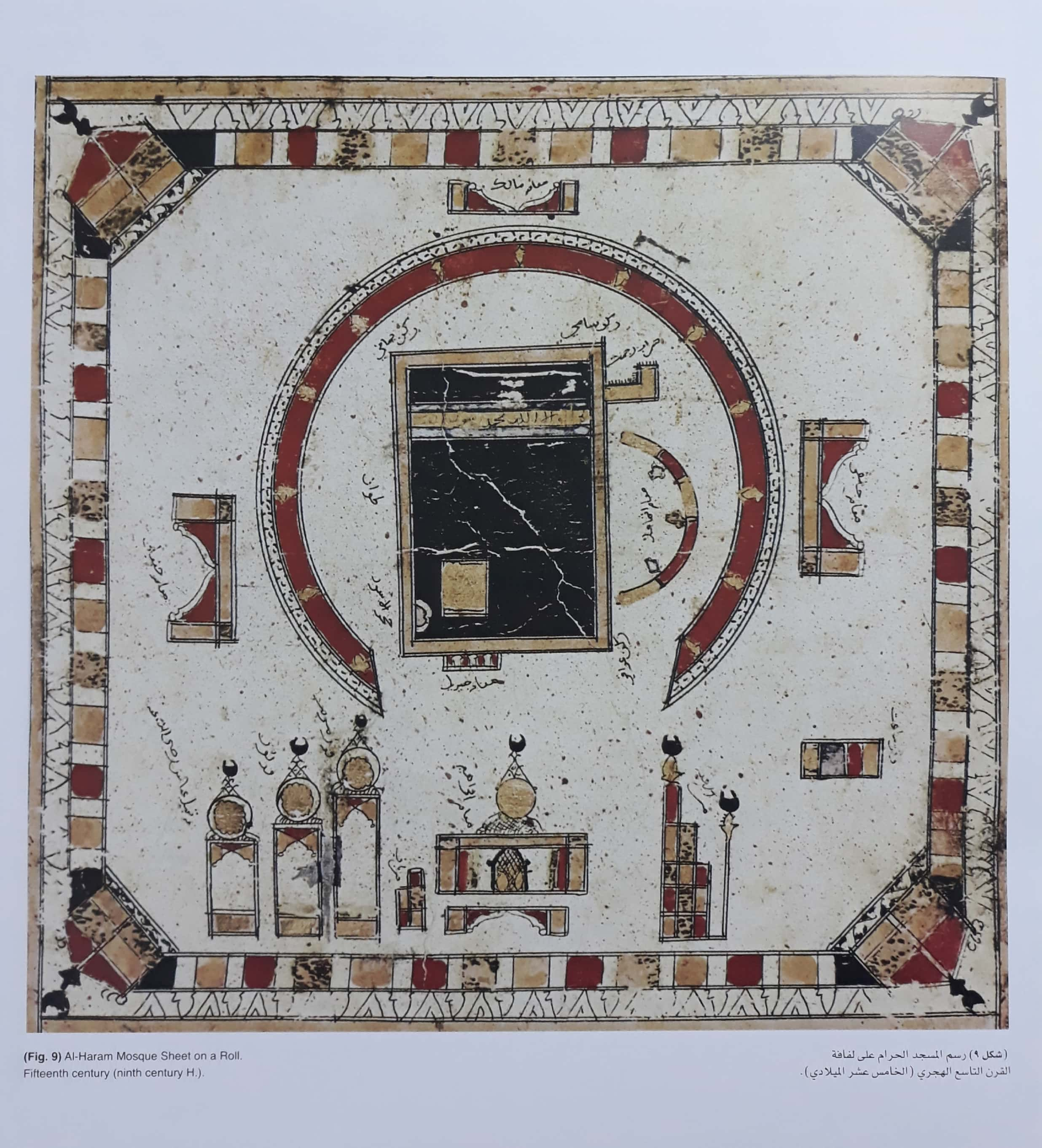 Al-Haram mosque sheet on a roll, Fifteenth century (ninth century H.).